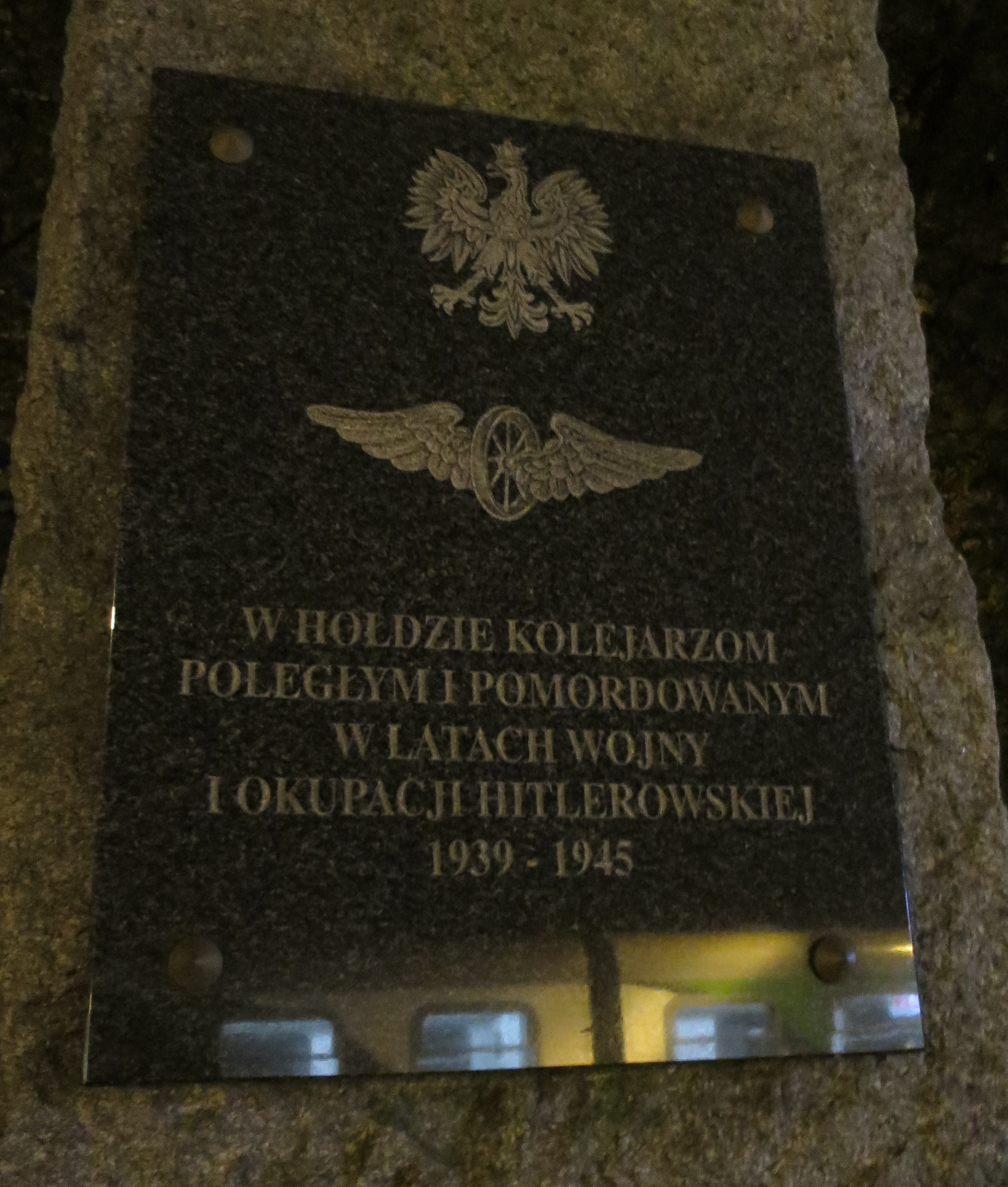 Memorial plaque at Deblin railway station, stating "in memory of the railwaymen who fell and were murdered during the war and the Nazi occupation of 1939–1945" This photo was taken during Railway Wikiexpedition 2015 set up by Wikimedia Polska Association in cooperation with Fundacja Grupy PKP.You can see all photographs in category Wikiekspedycja kolejowa 2015.